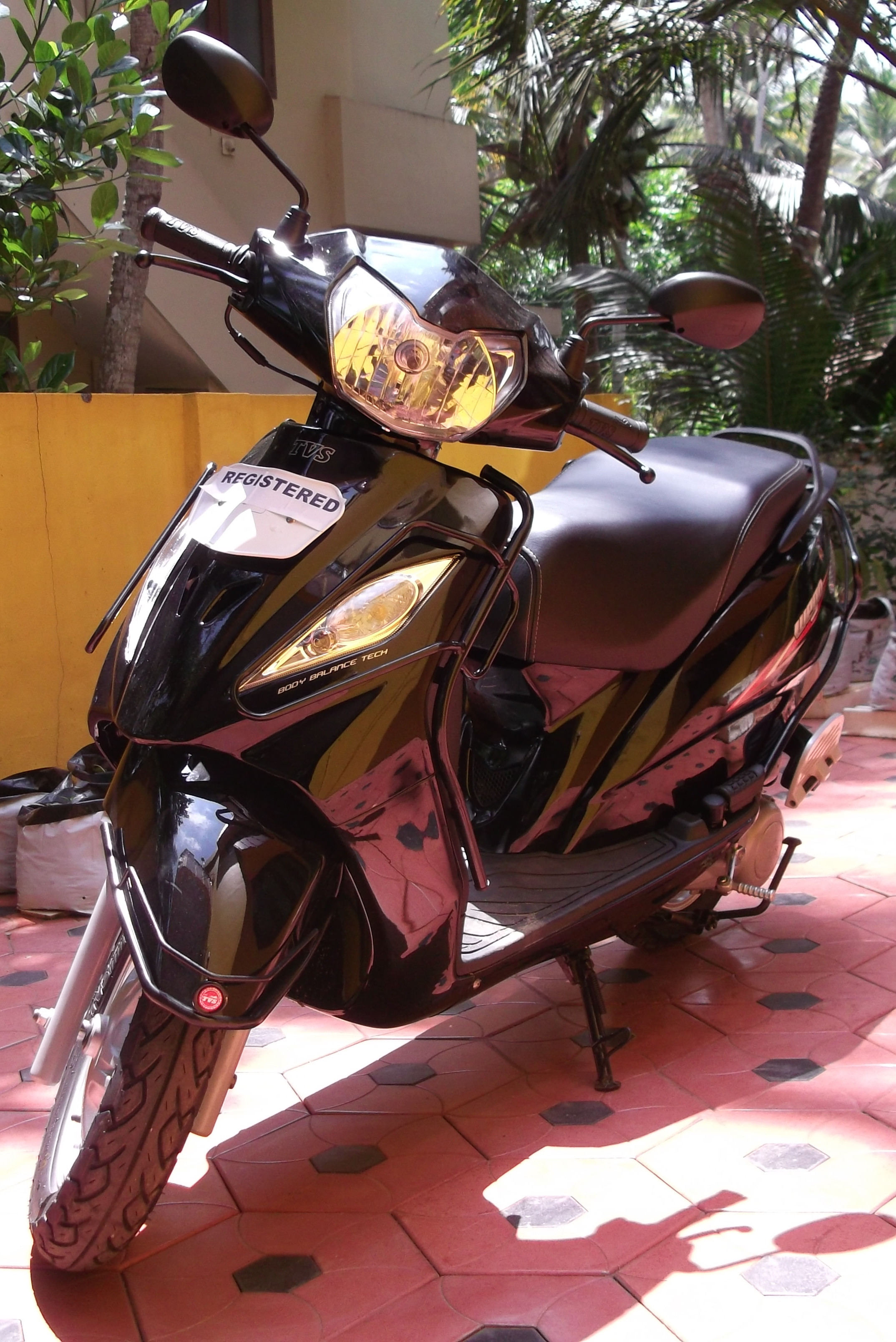 Photo of the scooter TVS Wego.